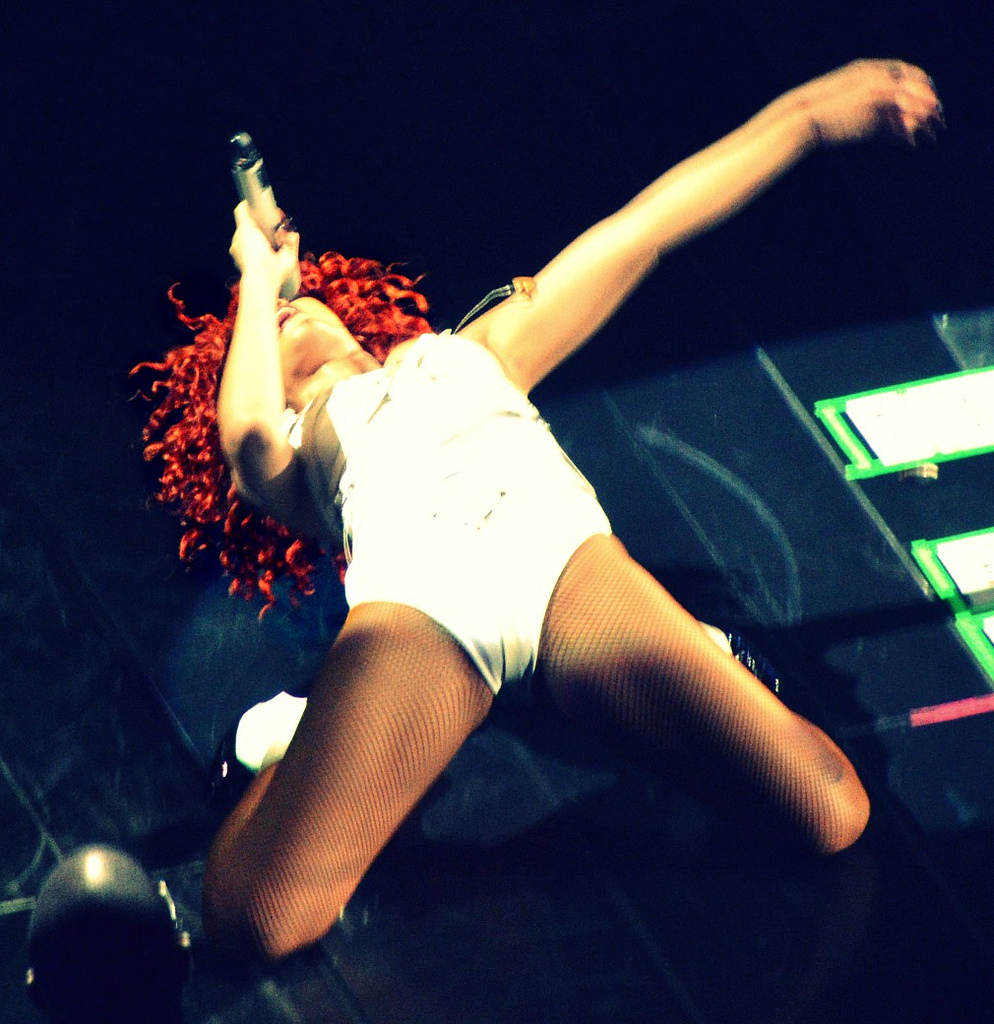 Rihanna live in Baltimore, on her tour The LOUD Tour. 4th June 2011